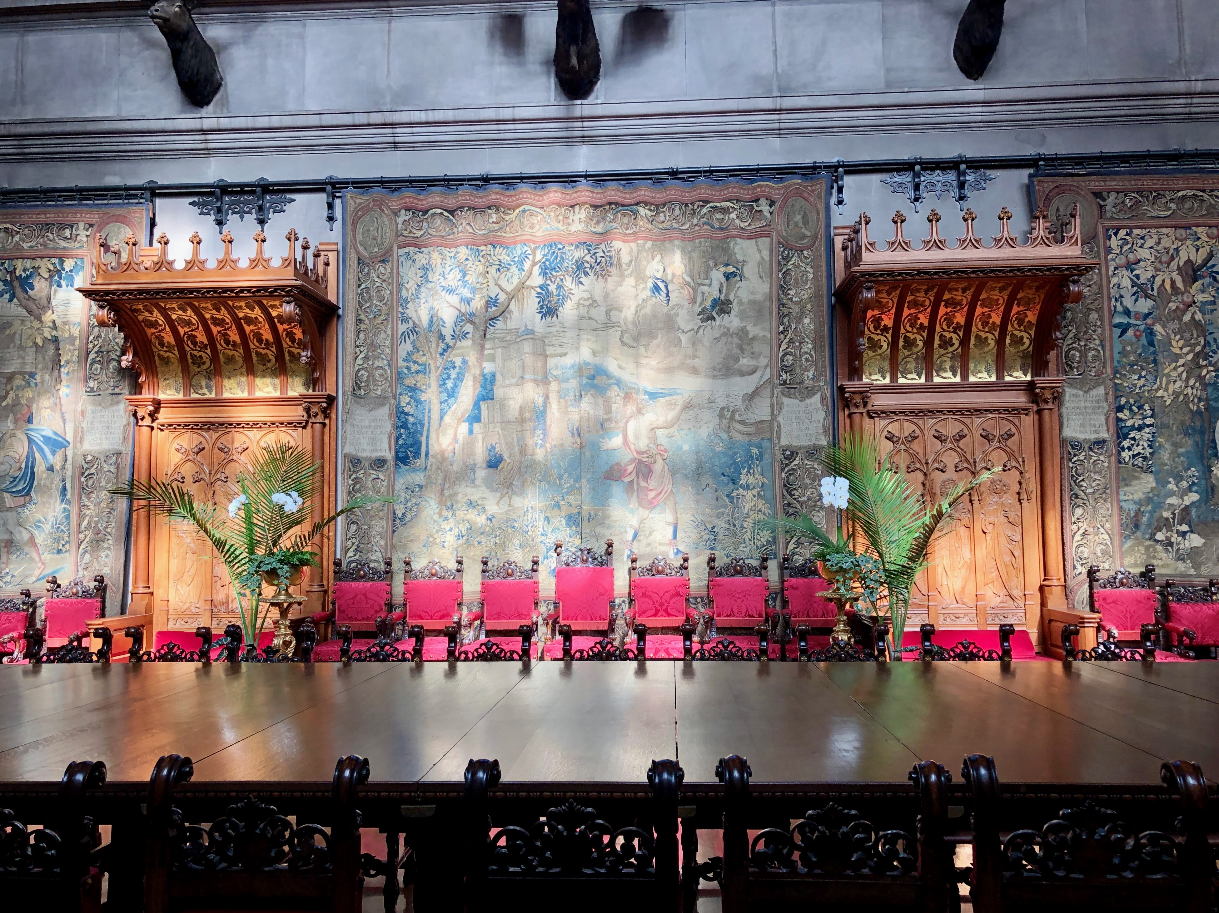 Banquet Hall, Biltmore House, Biltmore Estate, Asheville, NC